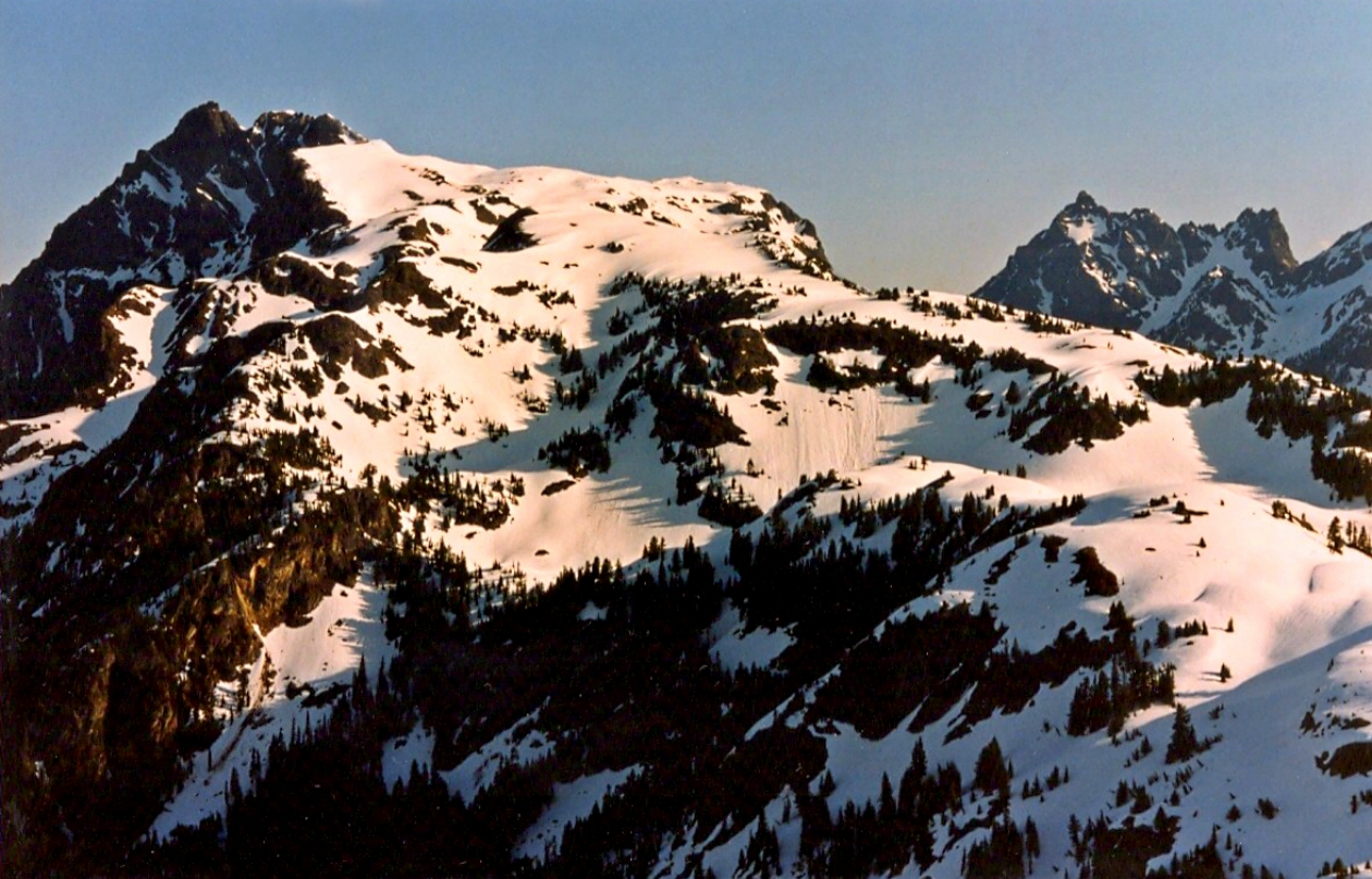 Tomyhoi Peak and Canadian Border Peak seen from Keep Kool Butte in March 1994. Located in theNorth Cascades mountains, north of the Mount Baker Ski area in Washington state.